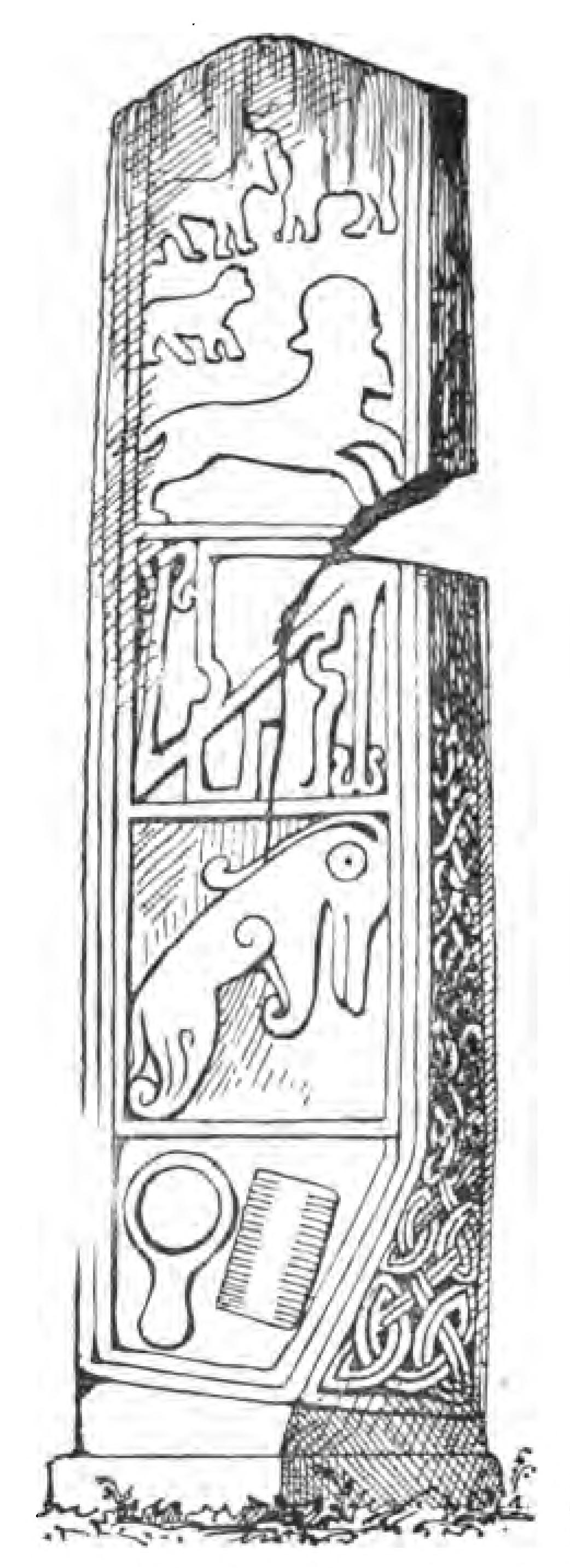 Maiden Stone at Inverurie, Aberdeenshire